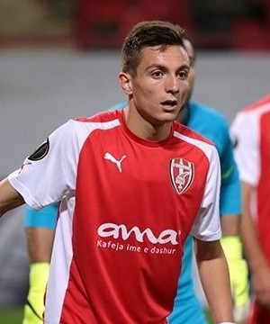 Leonit Abazi during the match against Lokomotiv Moscow on 1 October 2015.